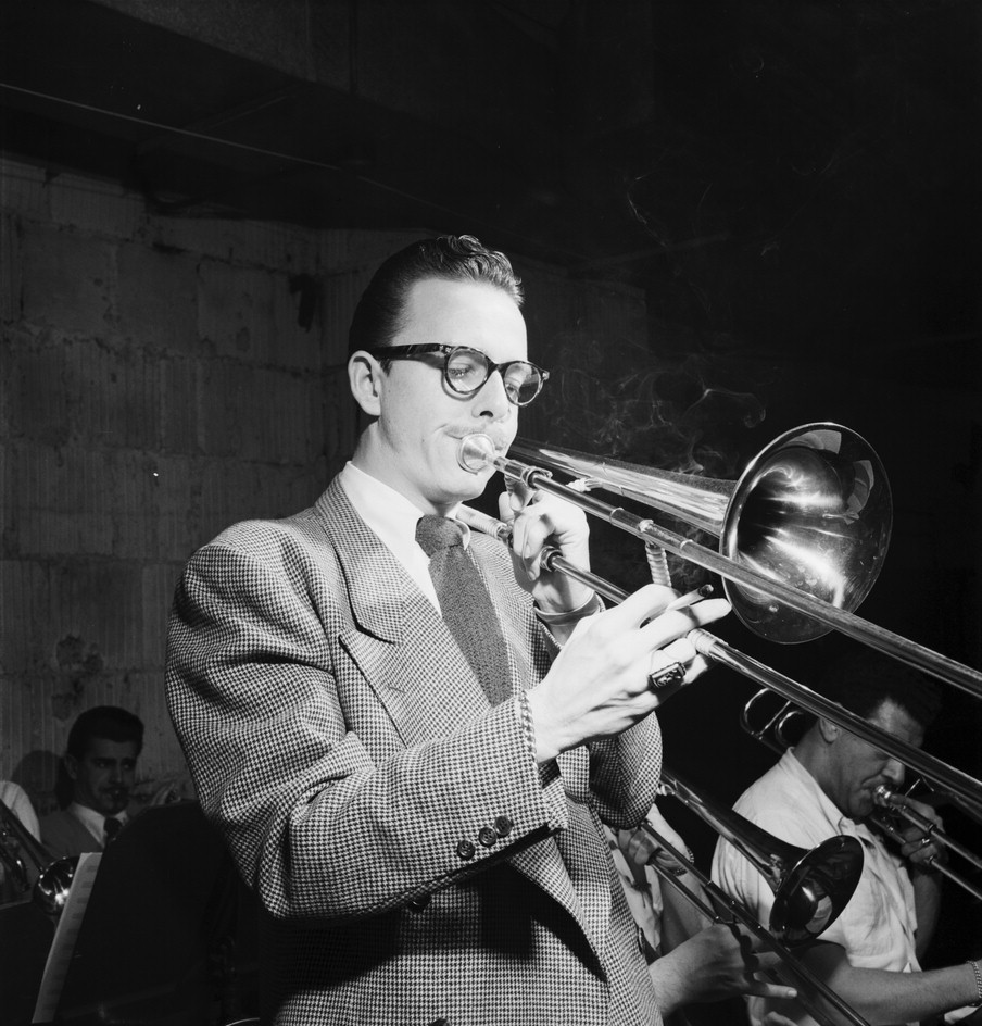 Portrait of Kai Winding, New York, N.Y.(?), ca. Jan. 1947 1 negative : b&w ; 2 1/4 x 2 1/4 in. Notes: Gottlieb Collection Assignment No. 163 Reference print available in Music Division, Library of Congress. Purchase William P. Gottlieb Forms part of: William P. Gottlieb Collection (Library of Congress). Subjects: Winding, Kai Stan Kenton Orchestra Jazz musicians--1940-1950. Trumpet players--1940-1950. Format: Portrait photographs--1940-1950. Film negatives--1940-1950. Rights Info: Mr. Gottlieb has dedicated these works to the public domain, but rights of privacy and publicity may apply. Repository: (negative) Library of Congress, Prints & Photographs Division, Washington D.C. 20540 USA, (reference print) Library of Congress, Music Division, Washington D.C. 20540 USA, Part Of: William P. Gottlieb Collection (DLC) 99-401005 General information about the Gottlieb Collection is available at Persistent URL: Call Number: LC-GLB23- 0940